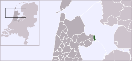 Location of Enkhuizen